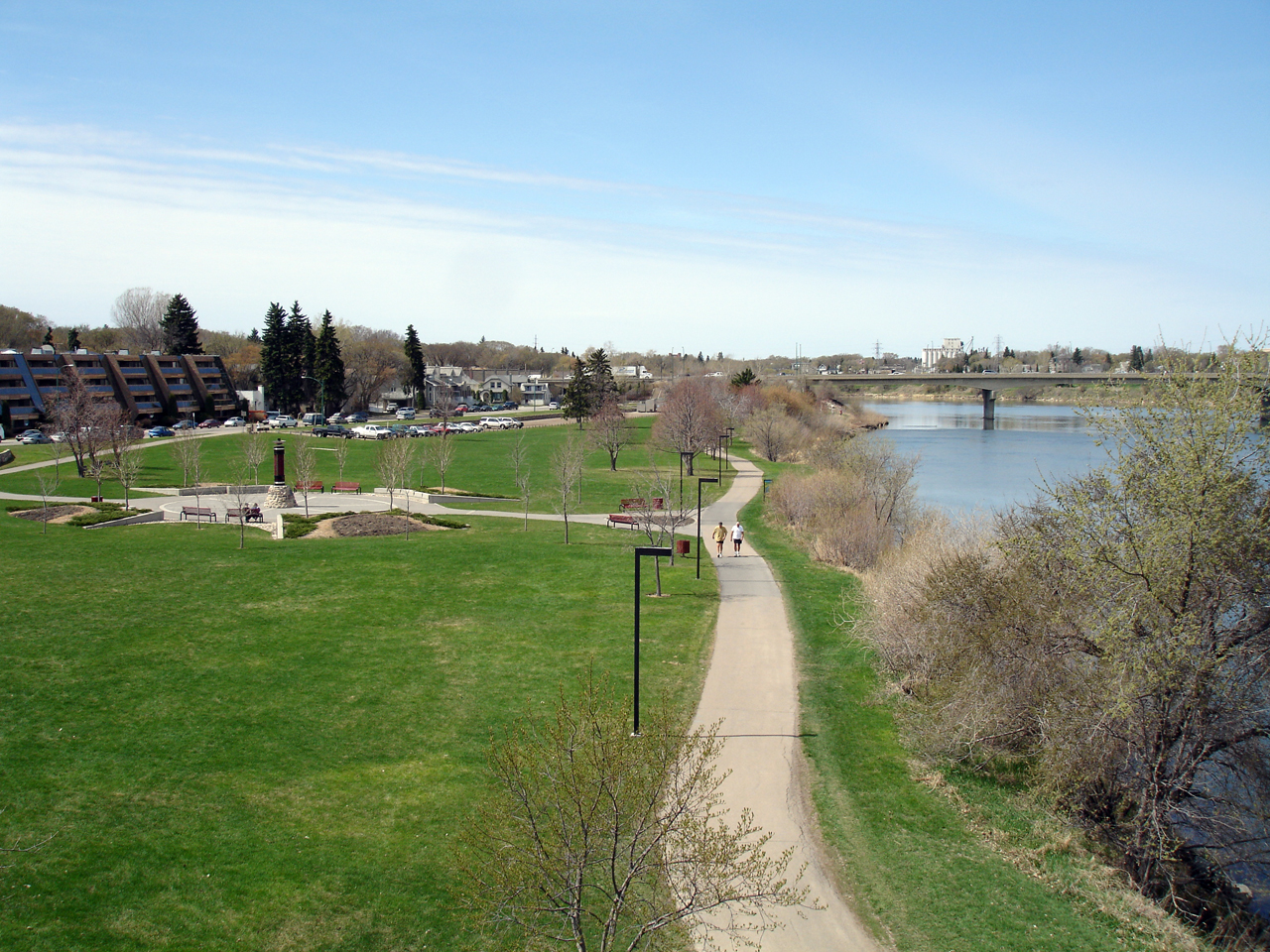 Rotary Park in the Nutana neighbourhood of Saskatoon, Saskatchewan, Canada.